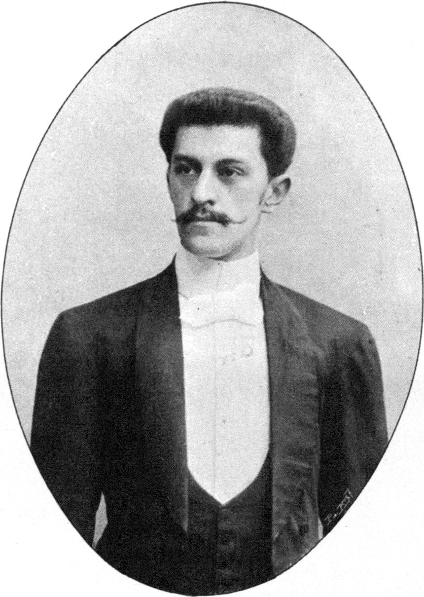 Portrait of Johann Strauss III ("Grandson", 1866-1939), German composer.